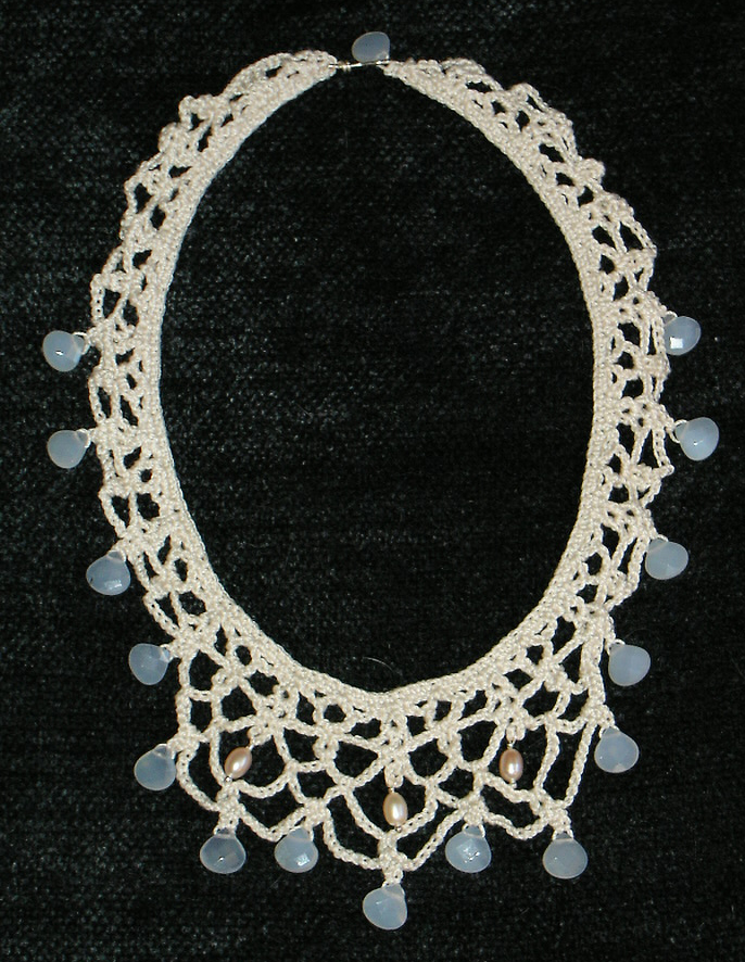 Necklace made from crochet lace (mercerized cotton size 10 on 1.75mm hook)with faceted chalcedony, sterling silver, and freshwater pearls. Original design.